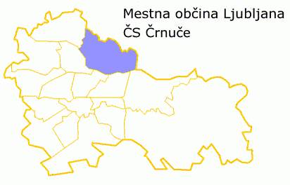 Črnuče, quarter of Ljubljana